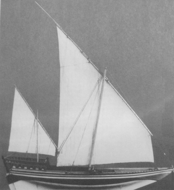 Sambuk, type of a Dhow